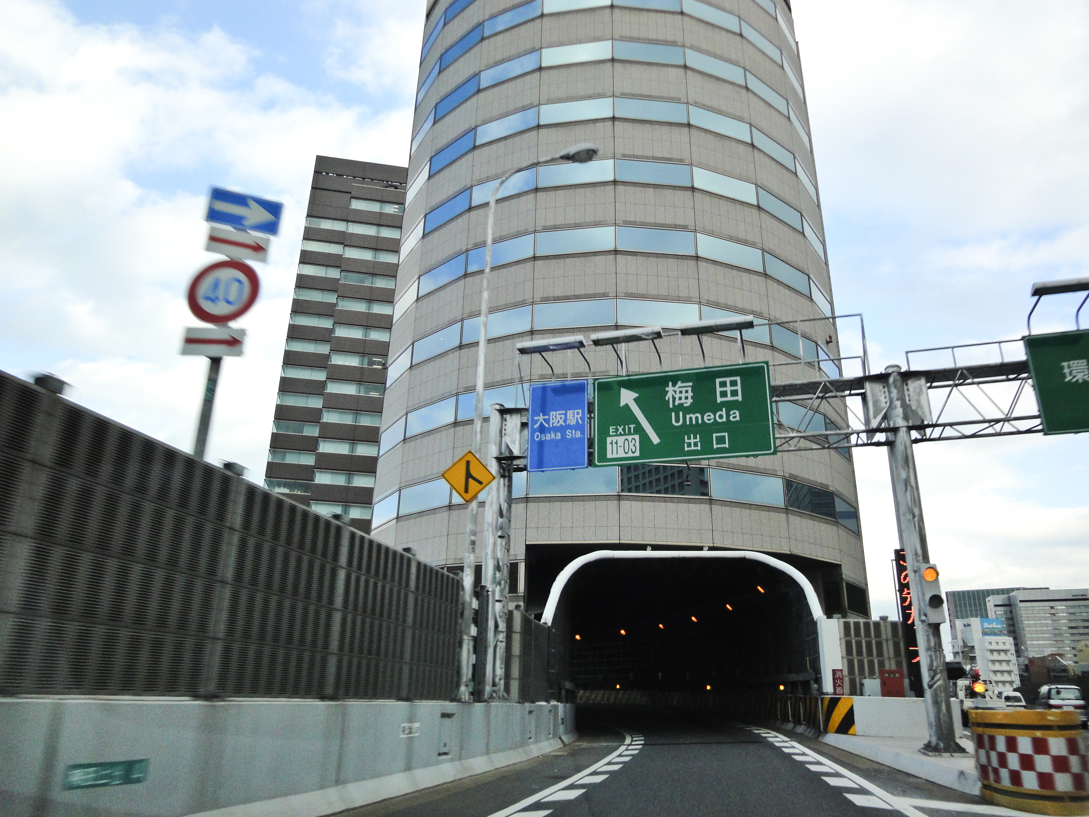 Gate Tower Building in Osaka City, Osaka Prefecture, Japan.